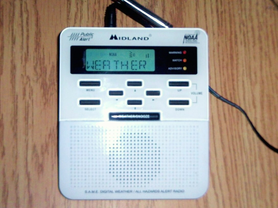 About S.A.M.E. Technology (S.A.M.E) S.A.M.E. is a location based system. On your weather radio-- you should see "SAME SET" on your NOAA Weather Radio. Once you see that, click on it. Then set it. Does the NWS use the S.A.M.E. Technology? Yes, they do. It's pretty cool. Cool 'eh? Where can I find my S.A.M.E code? You can find your S.A.M.E. code by calling 1-888-NWR-SAME or by going to Still cannot get my S.A.M.E. code. Hmmmm..... maybe.... You know what... Only one more thing...... contact the National Weather Service. If that still does not work.... Your out of luck :( . It worked Cool! Glad to hear it!